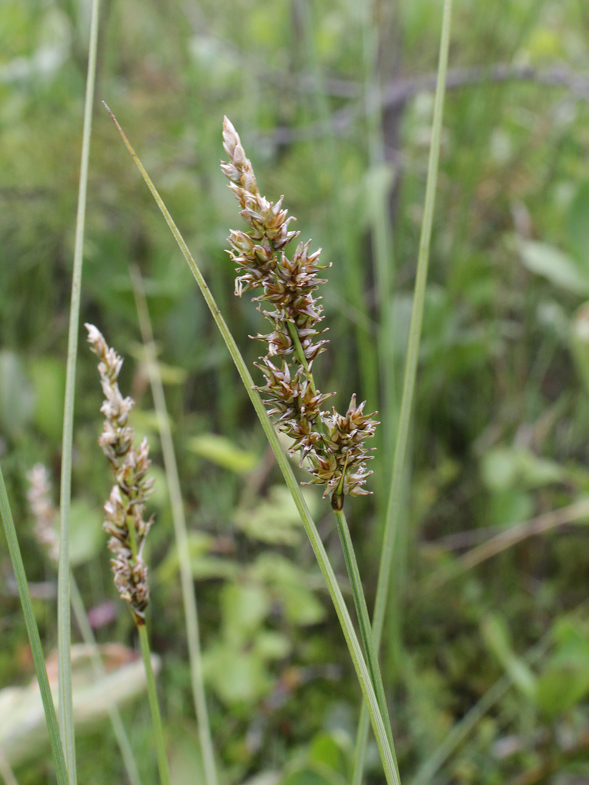 Cyperaceae, Carex diandra